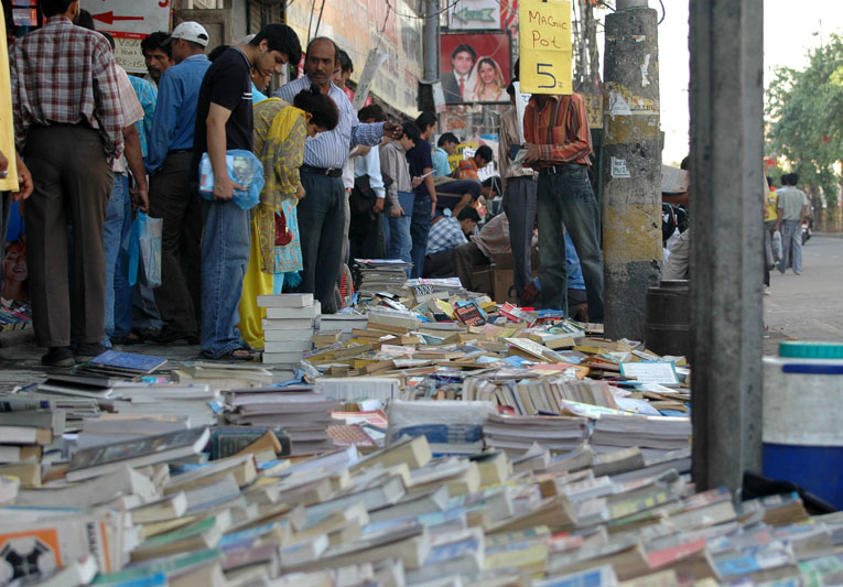 Sunday 2nd hand books market in Darya Ganj, Delhi catering to the middle class and students! One has so many fond memories of lazy Sundays spent browsing books here. My copy of Palgrave's Golden Treasury is still with me after 40 years!